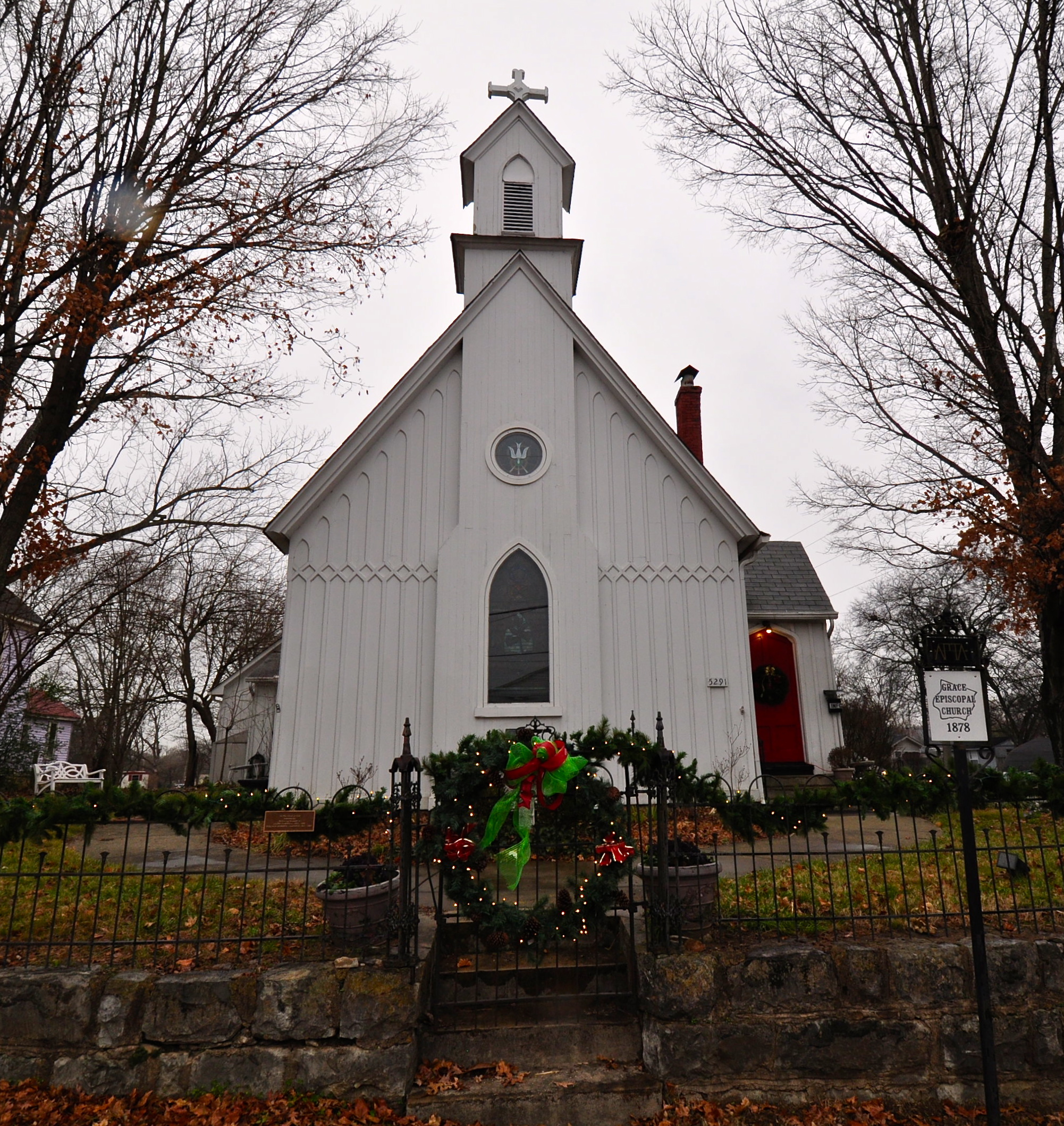 Located at Spring Hill, Tennessee.